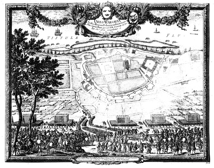 Battle of Warsaw 1656